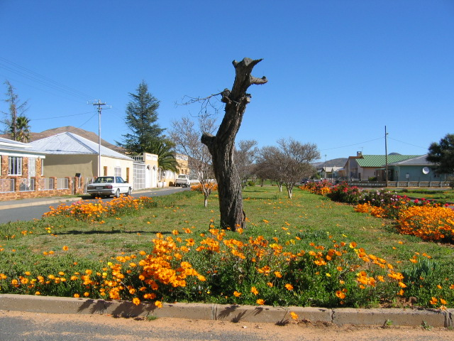 Street with flowers in Touws River.